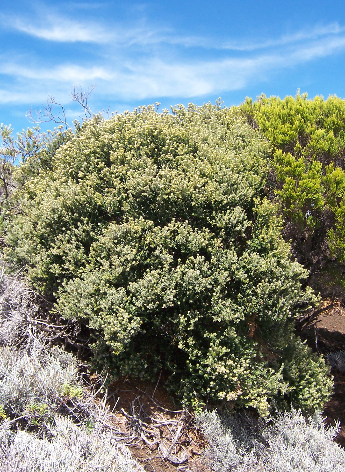 Phylica nitida fr : ambaville bâtard Photo: B.navez - 15 APR 2006 - Réunion island